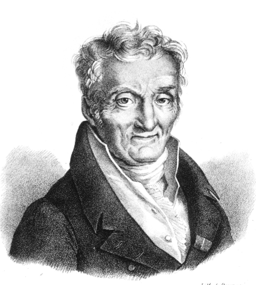 French psychiatrist Philippe Pinel (1745-1826)